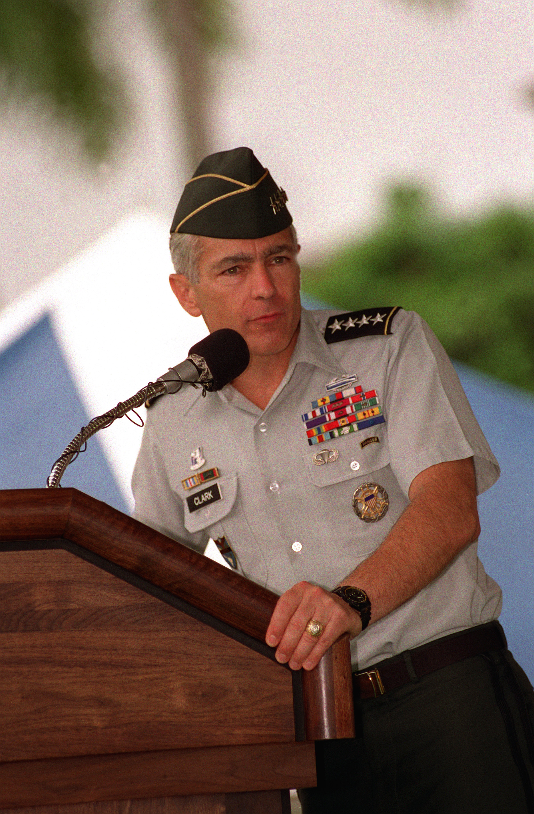 Wesley Clark taking command of USSOUTHCOM